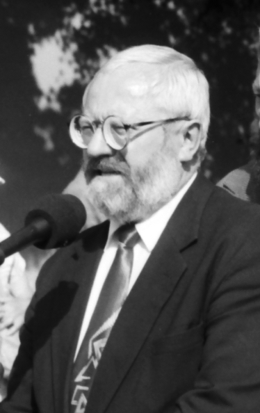 Politician Algirdas Pilvelis, Lithuania